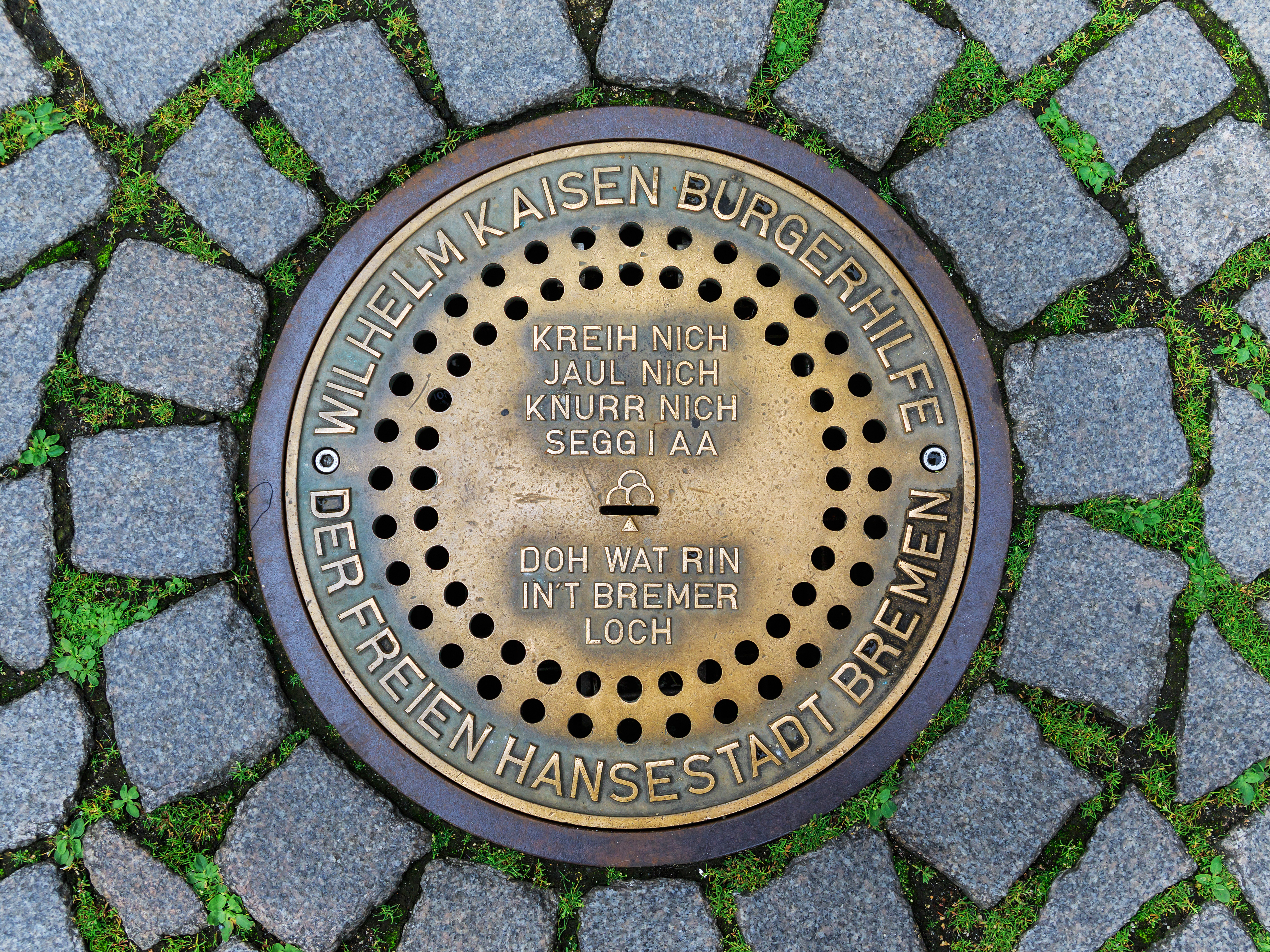 The Bremen Hole in Bremen, Germany